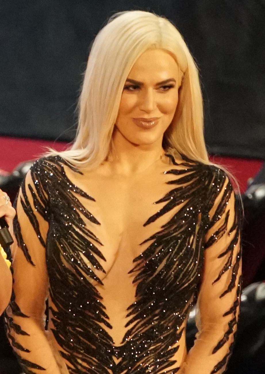 NOLA 2018 - WWE HOF 2018 WWE Hall of Fame (2018) was the event that featured the introduction of the 19th class to the WWE Hall of Fame. The event was produced by WWE on April 6, 2018 from the Smoothie King Center in New Orleans, Louisiana. The event took place the same weekend as WrestleMania 34. The event aired live on the WWE Network, and was hosted by Jerry Lawler. ( Deux semaines a Nola pour la ville et pour WWE Wrestlemania XXXIV Two weeks Nola for the city and for WWE Wrestlemania XXXIV )